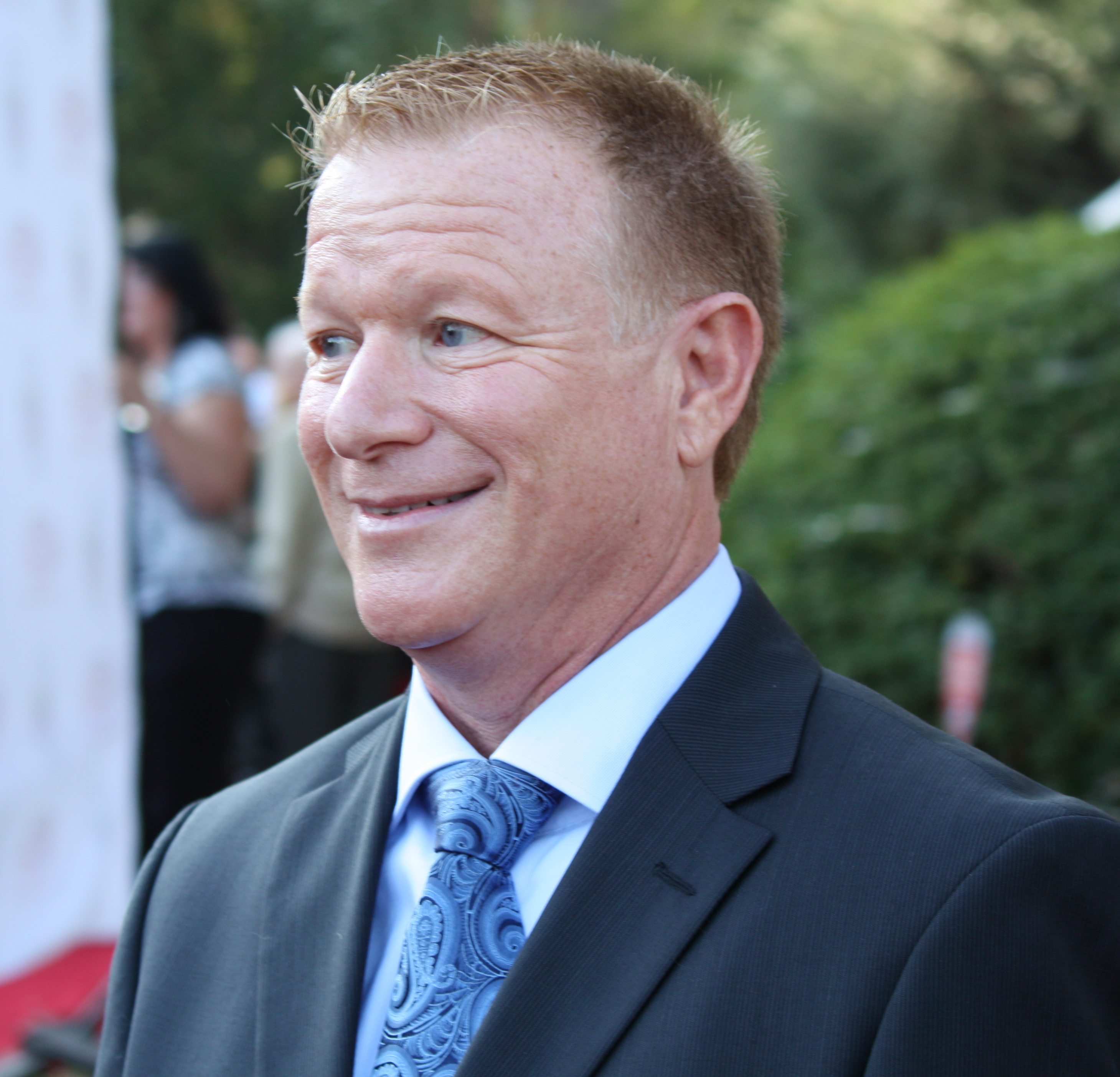 Scott at The Waltons 40th Anniversary in 2012